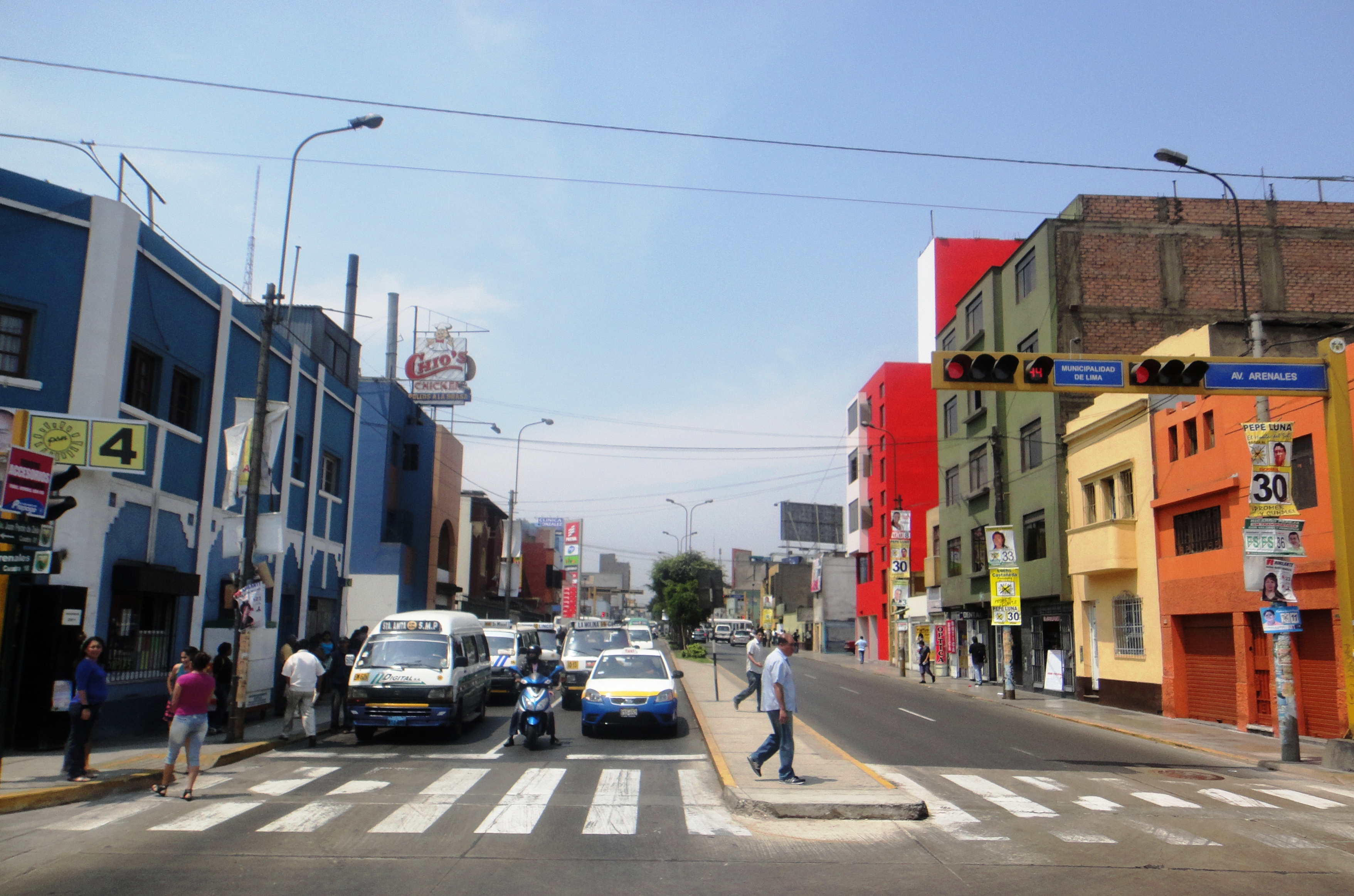 Pardo de Zela Ave. in Lince District, Lima-Peru.